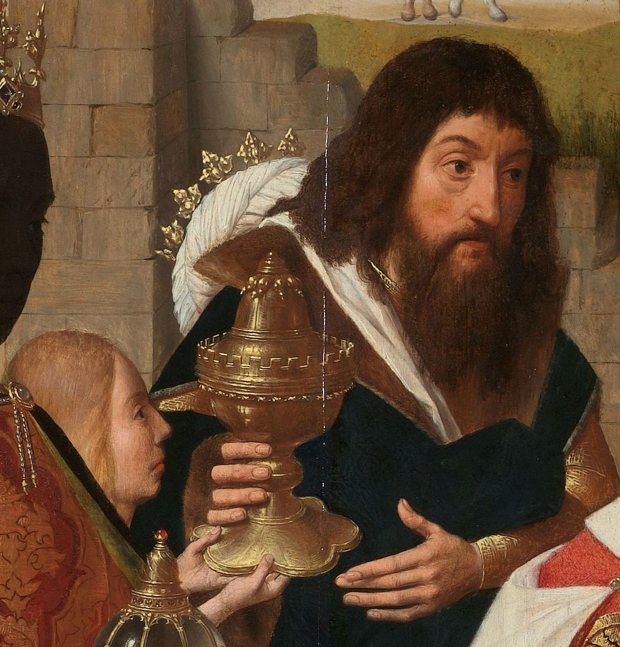 On the right the holy family in front of the stable in a ruin. On the left the three magi with their gifts. In the background the retinue of each of the three magi. The three magi represent three generations and the three continents known in the Middle Ages: Europe, Asia and Africa.